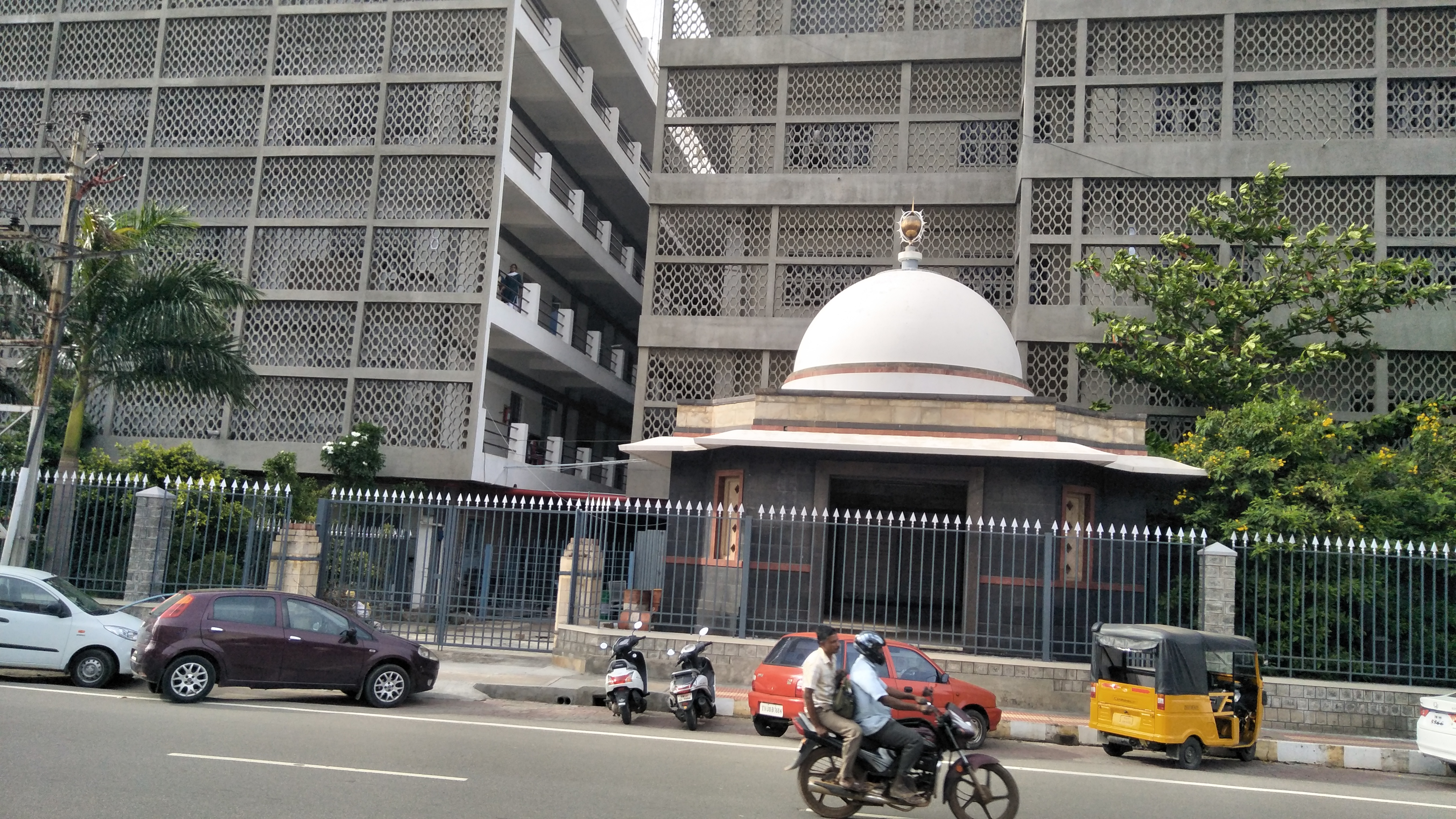 PSG தொழில்நுட்ப கல்லூரி